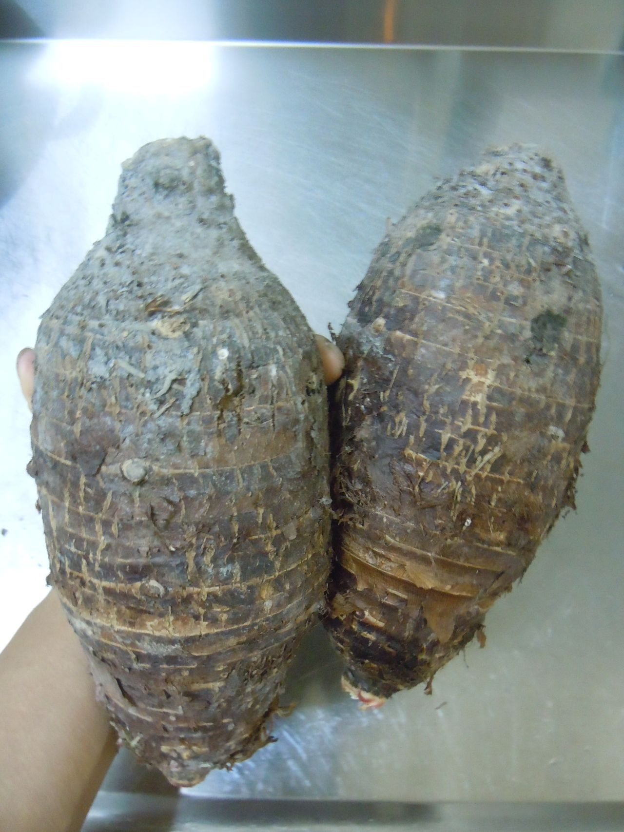 中文(繁體):芋：臺灣以甲仙、大甲、金山較為著名。